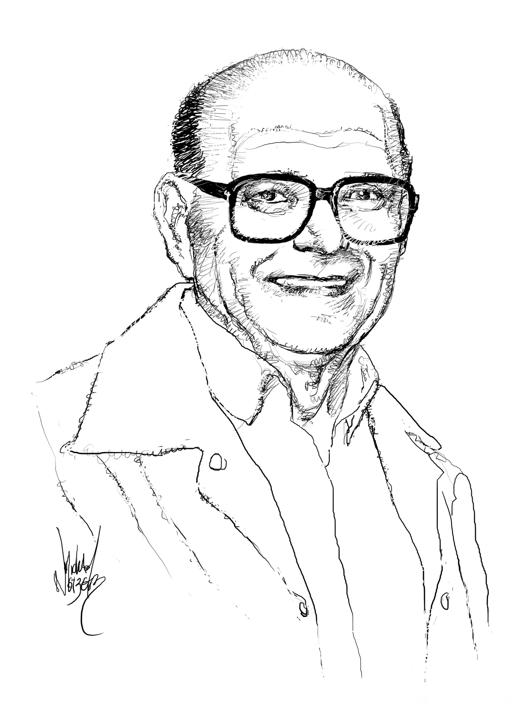 Portrait of comics artist Jim Aparo, from Michael Netzer's Portraits of the Creators Sketchbook.